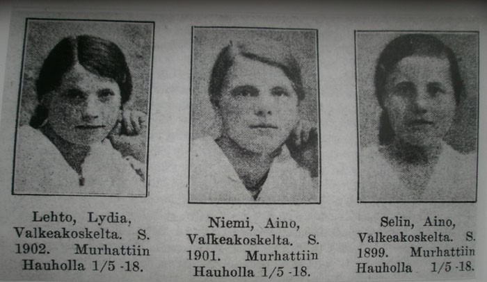 1918 Finnish Civil War: Pictures of three executed members of the Valkeakoski Female Red Guard, weekly magazine Itä ja Länsi, 1928.